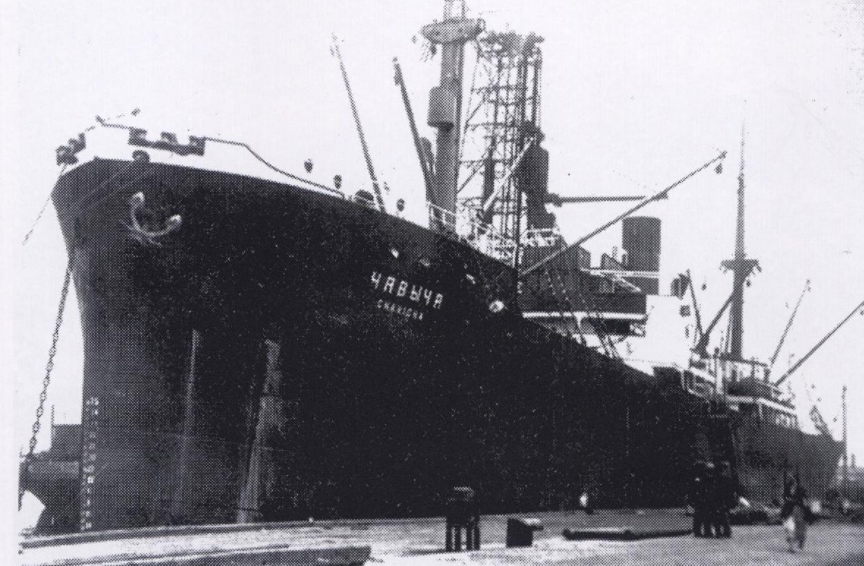 Steamer "Chavycha", Kamchatka, 1930s